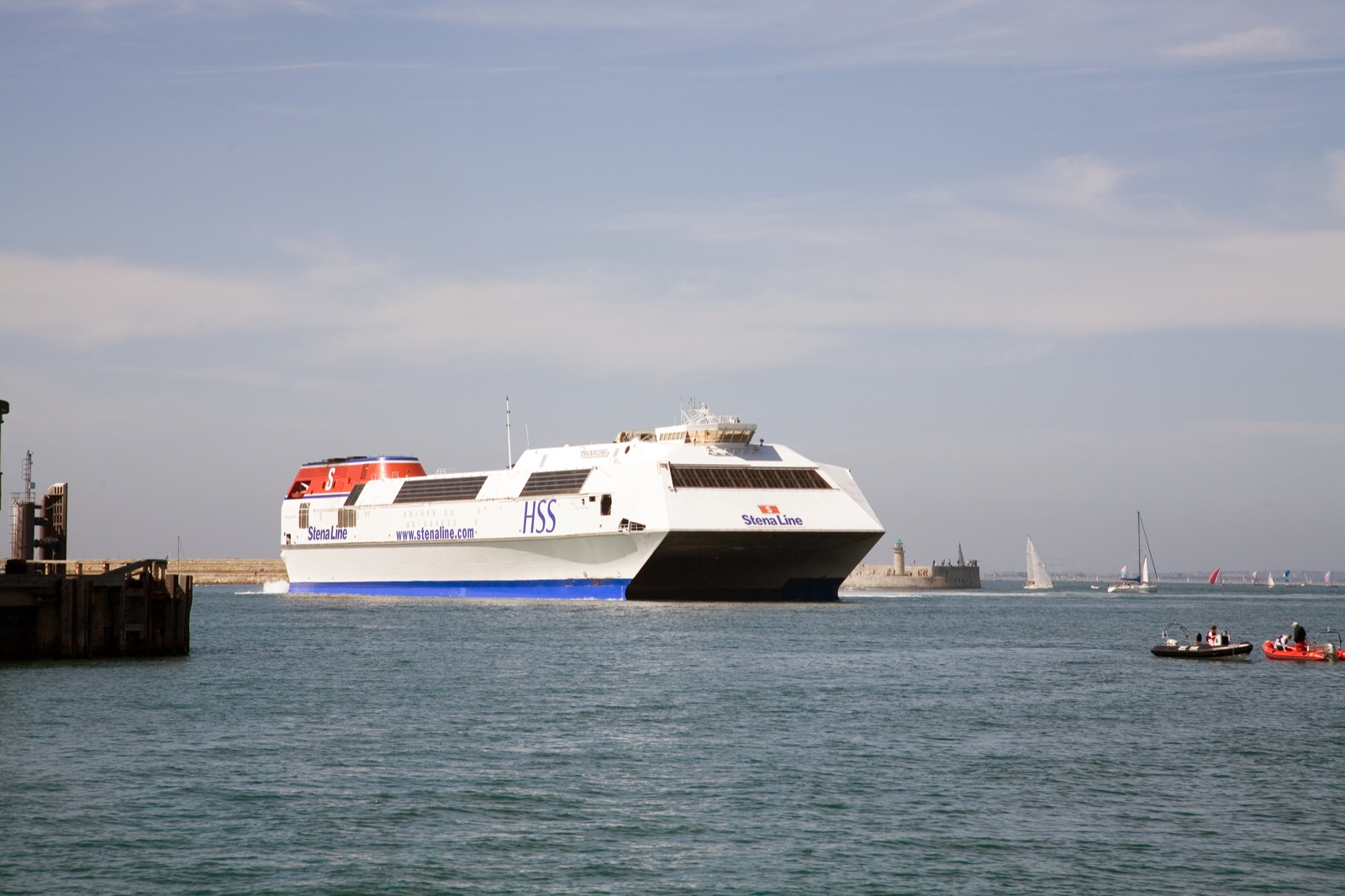 Stena Explorer Operates on the Holyhead-Dun Laoghaire route. Technical facts: Gross tonnage: 19 638 t LOA: 127 m Beam: 40 m Draught: 4.8 m Speed: 40 knots Ship type: HSS 1500 (High-speed Sea Service) Passenger capacity: 1 500 Car capacity: 360 Freight capacity: 900 lane metres Built/last rebuilt: 1996 Shipbuilder: Finnyards, Finland Port of registry: London Flag: British Engines: 2 x GE LM 2500 + 2 x GE LM 1600 gas turbines kW/horsepower: 68 000 kW